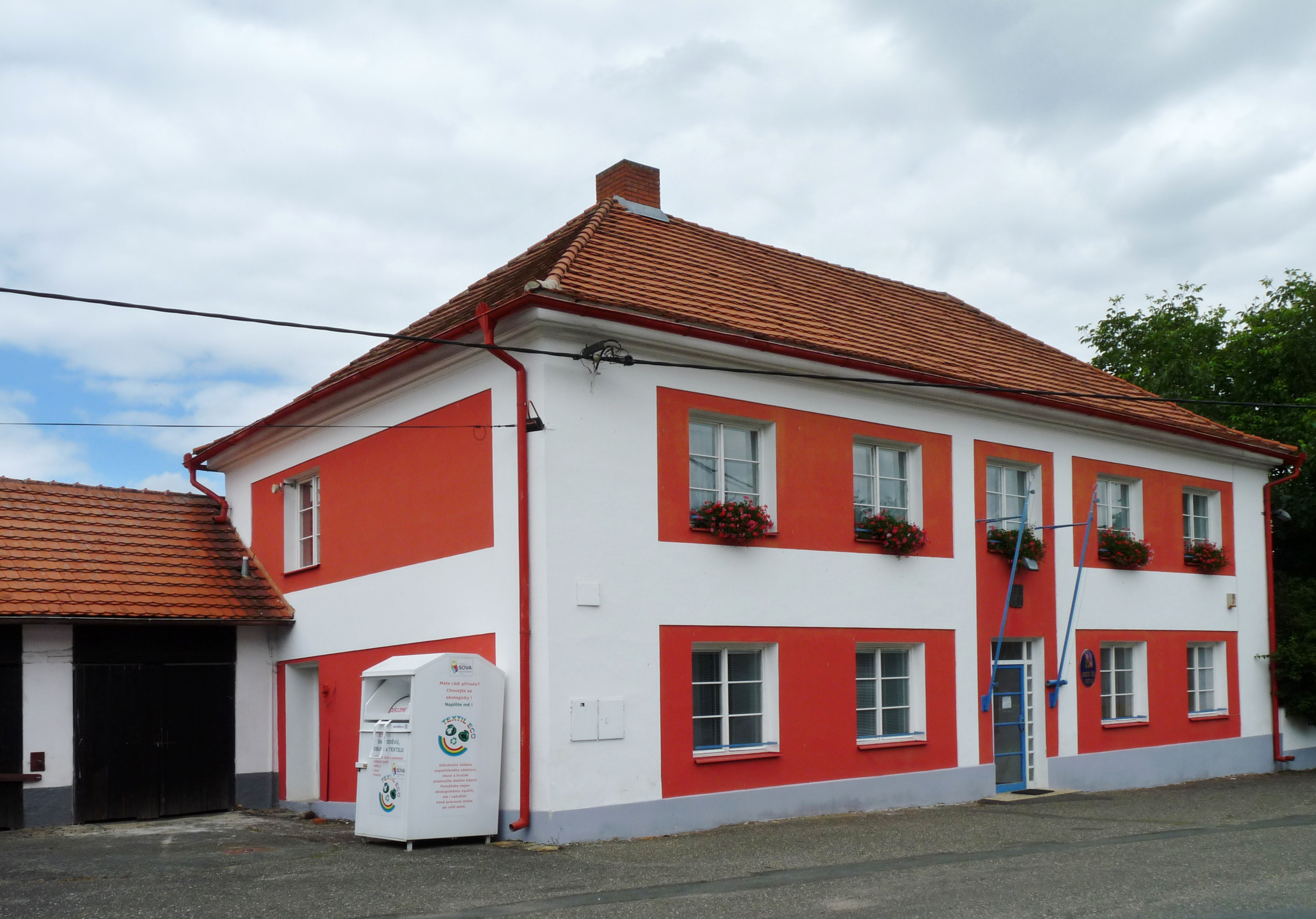 Municipality office / former synagogue in Drážkov, Příbram District, Central Bohemian Region, Czech Republic.